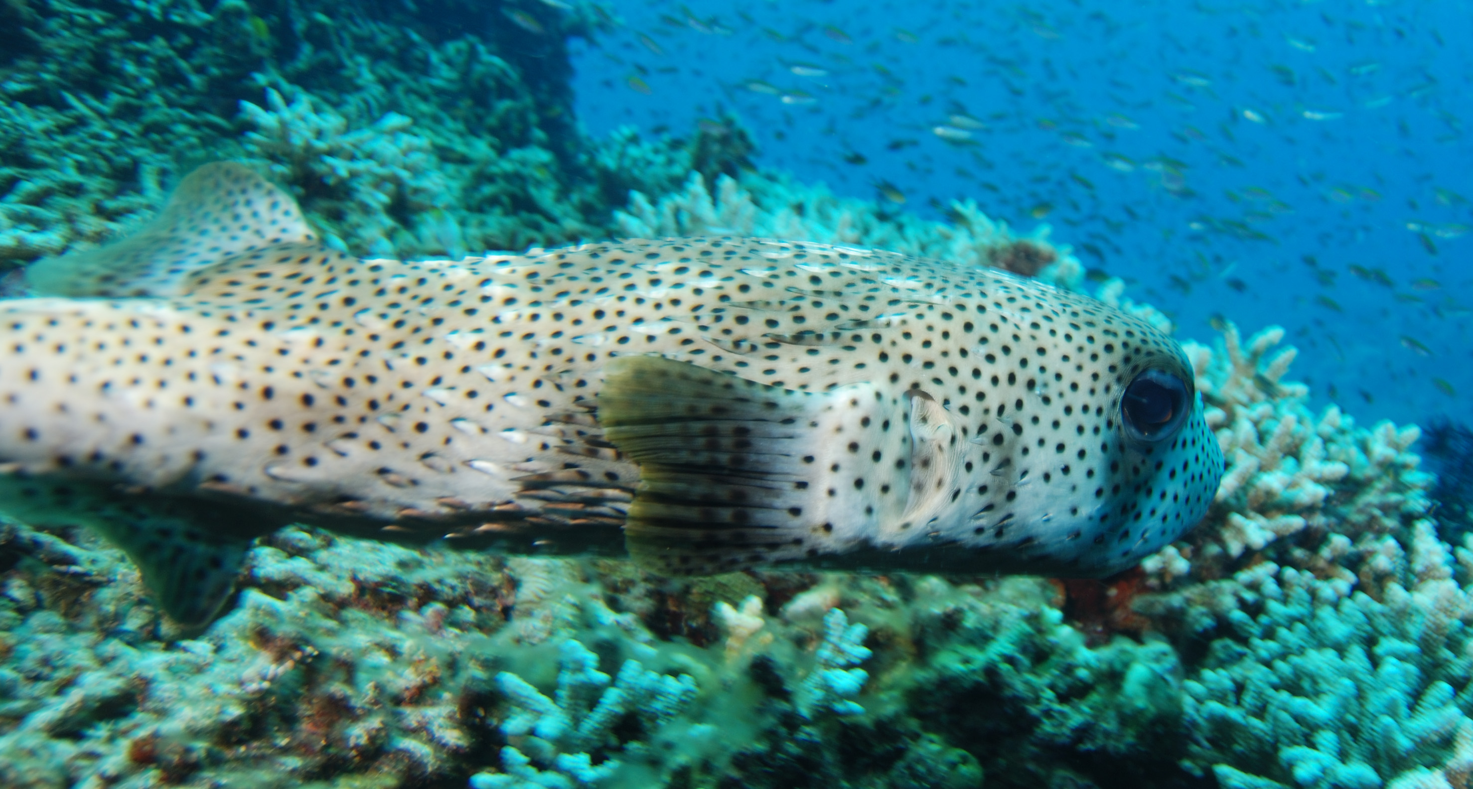 A burrfish (Diodon hystrix).